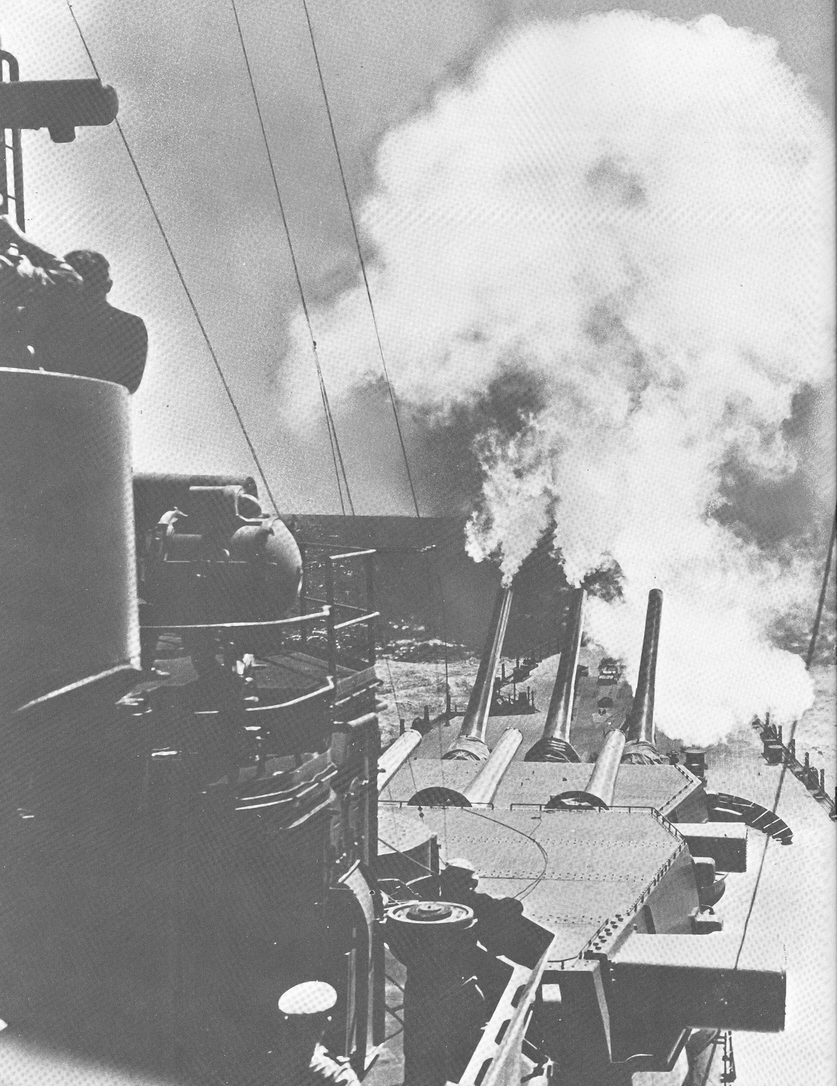 "Number 1 turret of the North Carolina (BB55) fires all three guns at near extreme elevation and directly over the bow. Total weight of such a three-gun salvo—about 8,100 pounds."